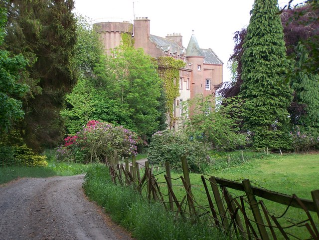 Colliston Castle